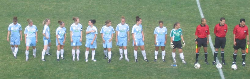 The Laval Comets line up for the National Anthem (match at Ottawa) Le Line up des Comètes de Laval pour l'hymne national (le Match était à Ottawa).